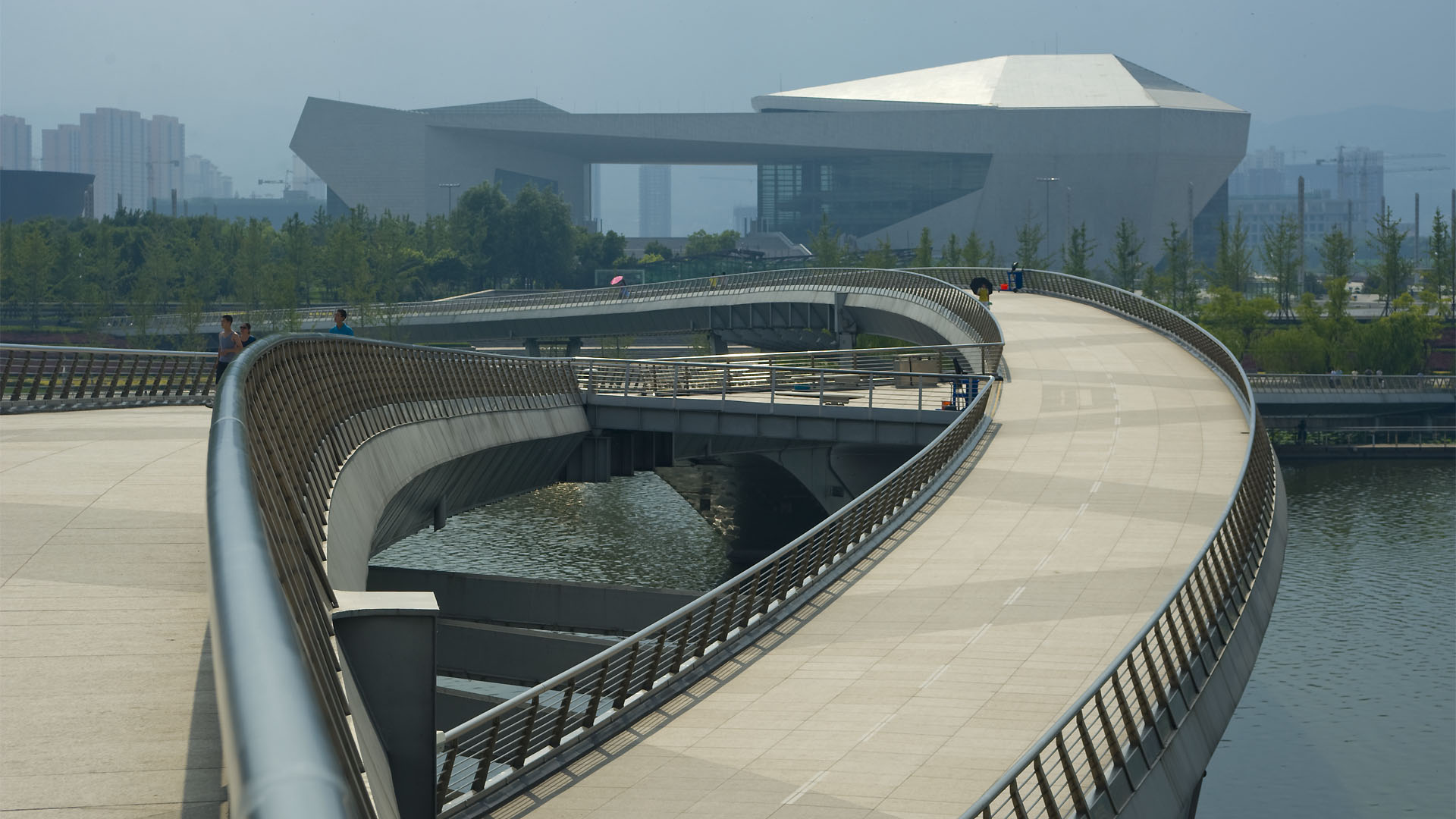 Changfeng footbridge on Fen river and Shanxi theater, Taiyuan, Shanxi, China